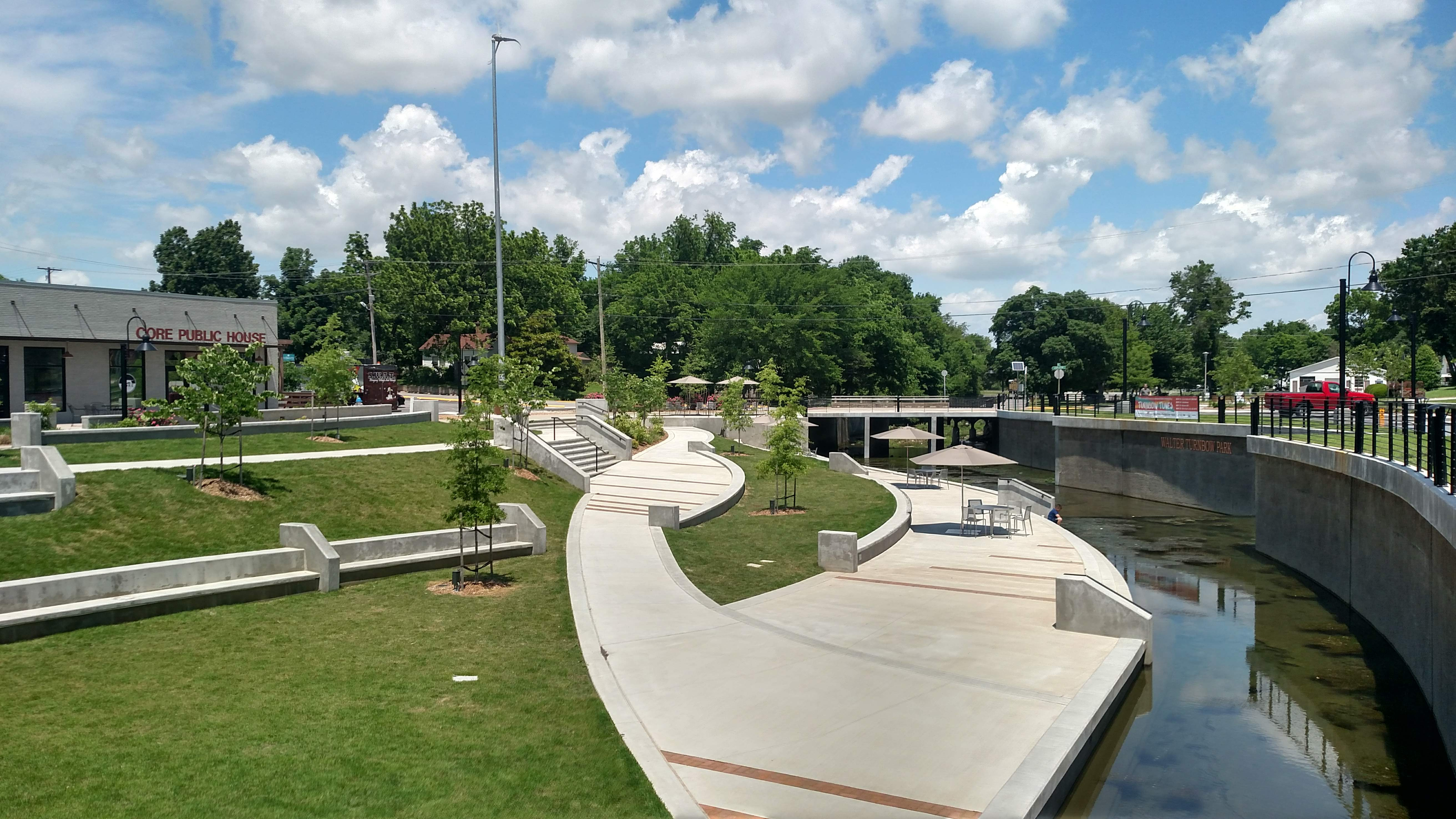 Spring Creek runs through Turnbow Park in downtown Springdale, Arkansas